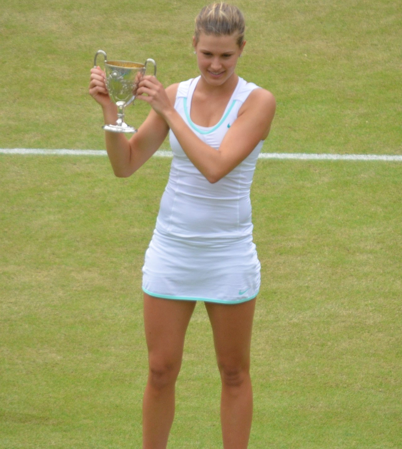 Eugenie Bouchard at the 2012 junior Wimbledon Championships